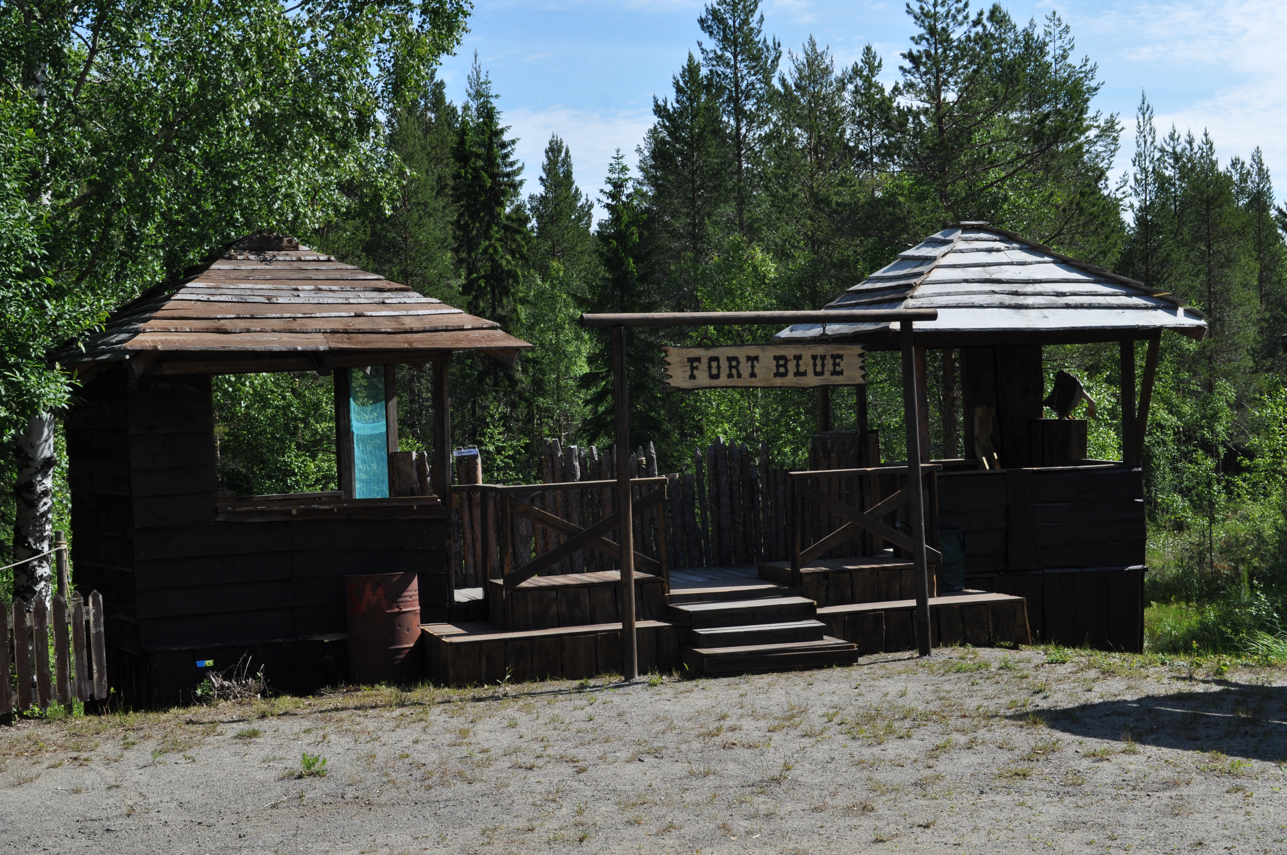 Props for a cowboy action shooting stage. From Blue Mountain Trail in Sundsvall, Sweden.